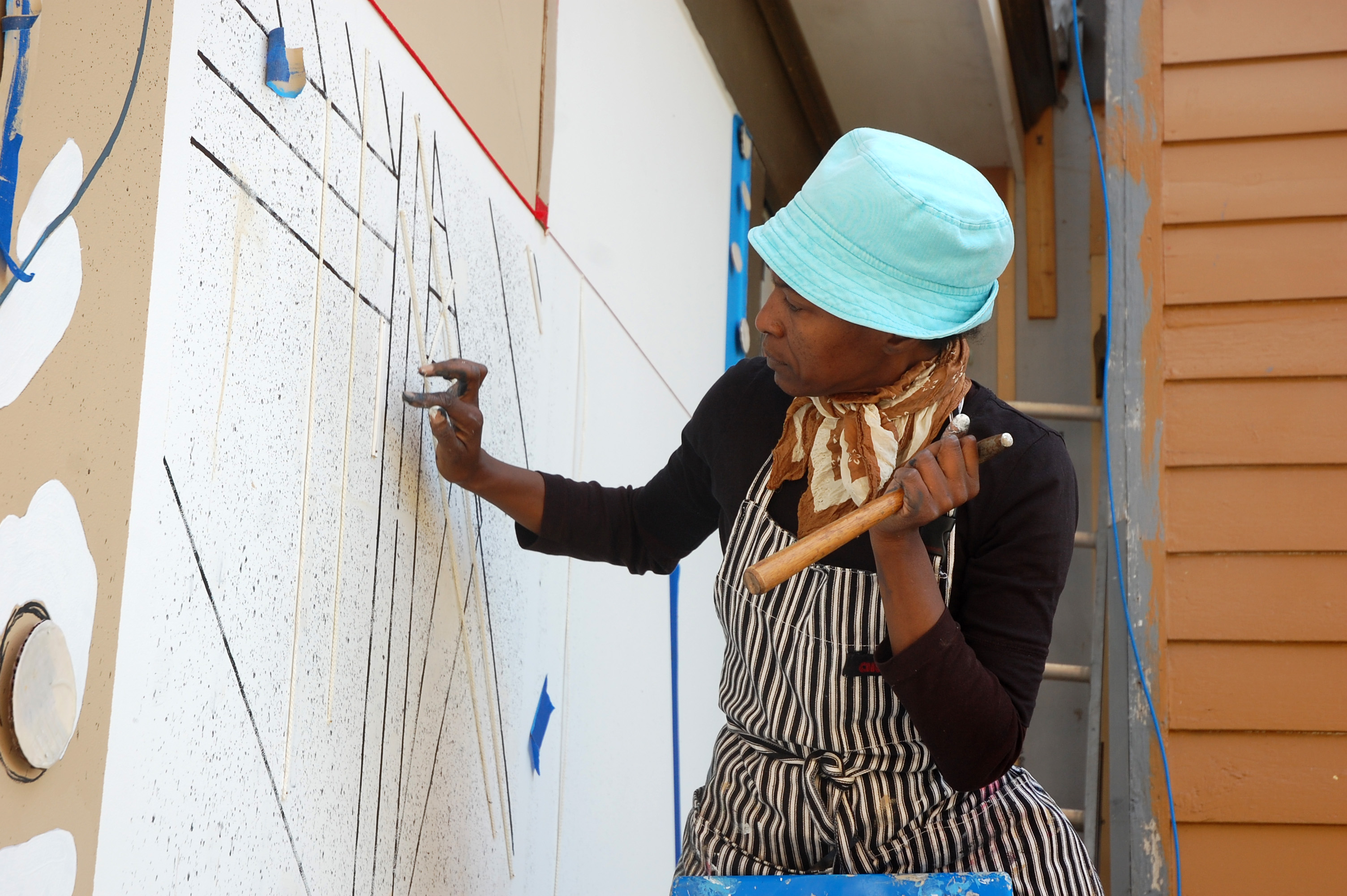 Artist, Alicia Henry working on an outdoor mural.